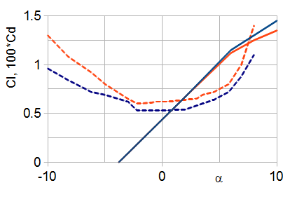 Lift and drag coefficients for NACA 633618 airfoil. Red values at Re=9.10^6, blue at 3.10^6. Full curves Cl, dashed Cd. Data Nasa via Abbott & Doenhoff, Theory of wing sections.